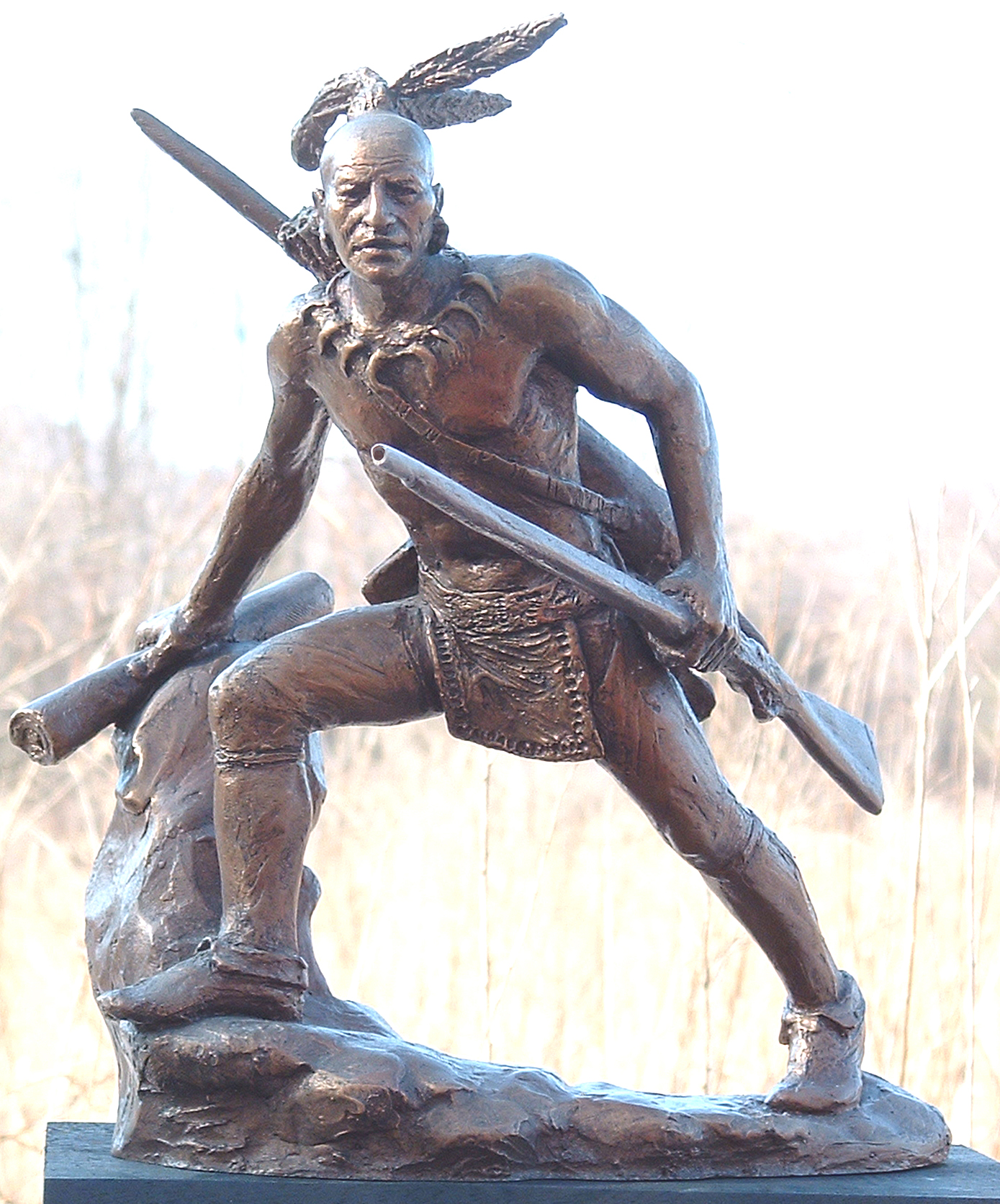 Last official Sachem of the Wappinger People